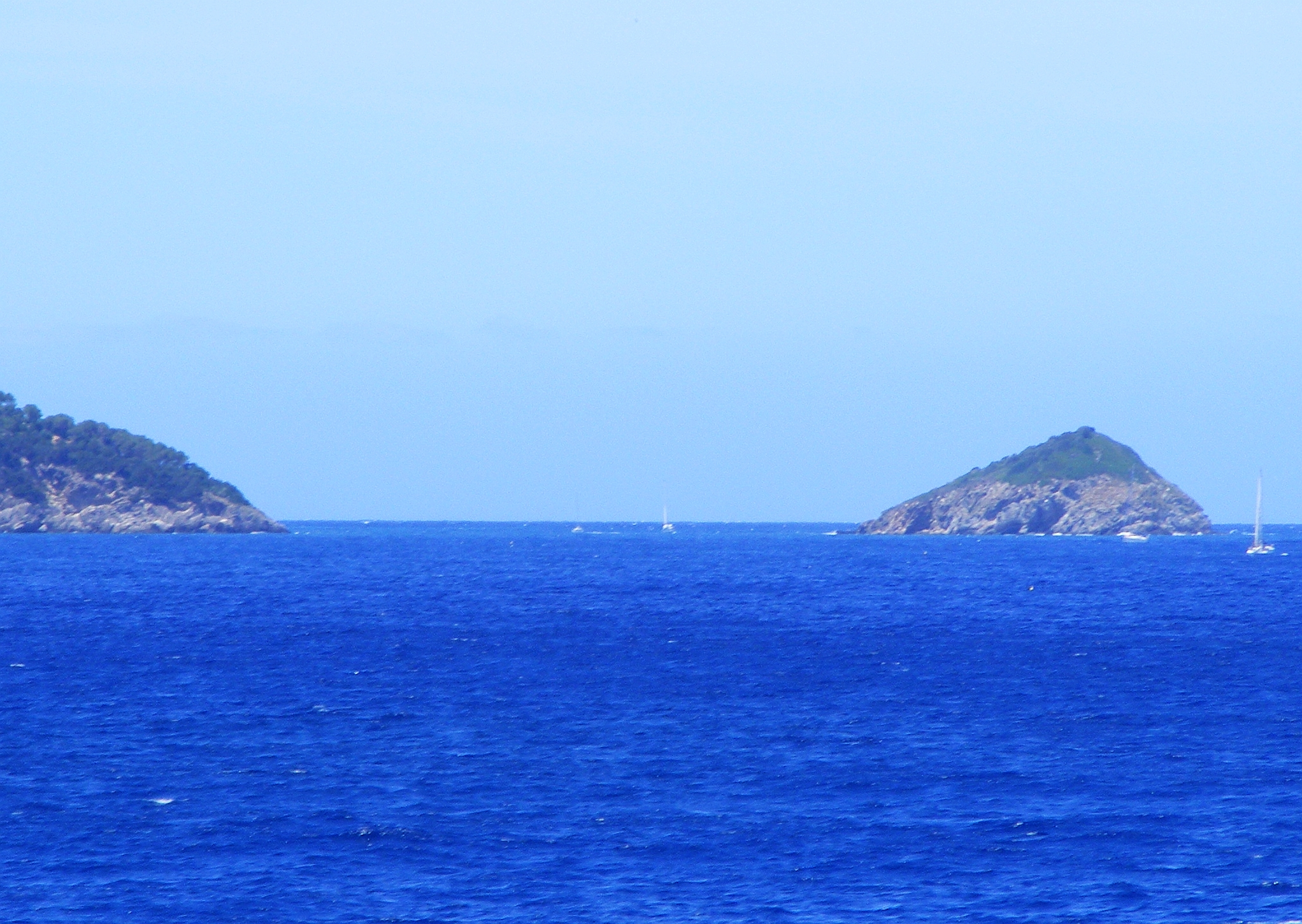 Isola dei Topi as seen fron South (Rio Marina, LI, Italy)